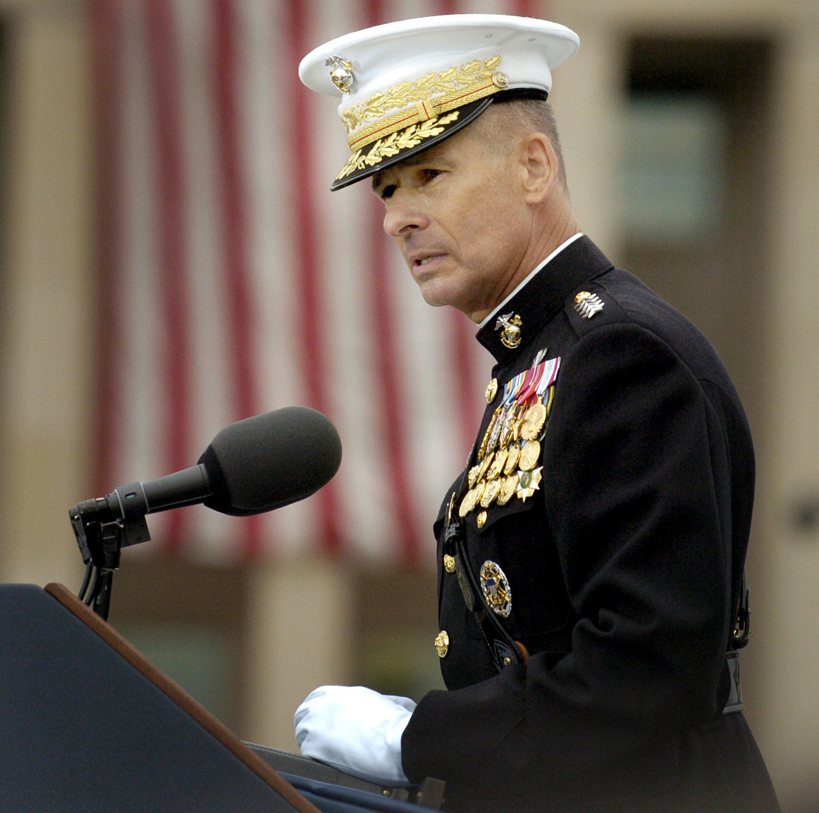 Pentagon, Washington, D.C. (Sept. 11, 2006) - Chairman of the Joint Chiefs of Staff, Marine Gen. Peter Pace speaks to attendees at a memorial ceremony at the Pentagon remembering the fifth anniversary of Sept. 11, 2001 terrorist attacks on the United States. U.S. Navy photo by Mass Communication Specialist 1st Class Chad J. McNeeley (RELEASED)